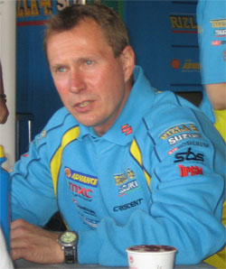 This picture was taken by myself (Andy Cross) at Snetterton on 09-Jul-05